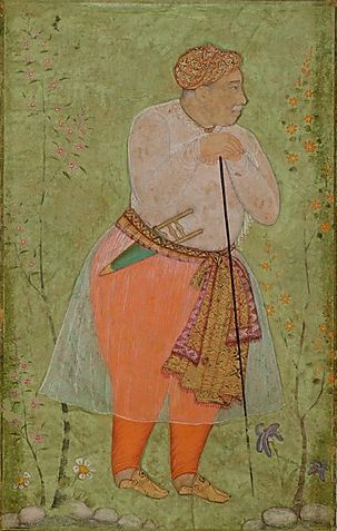 Man Singh I of later years